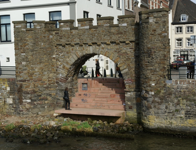 Water gate, part of fortification of city walls of Maastricht, The Netherlands